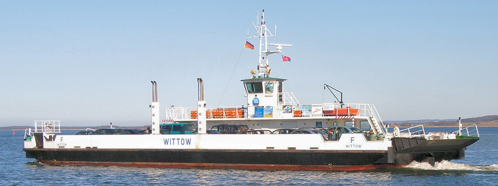 ferry "Wittow", Wittower Fähre (island Rügen)